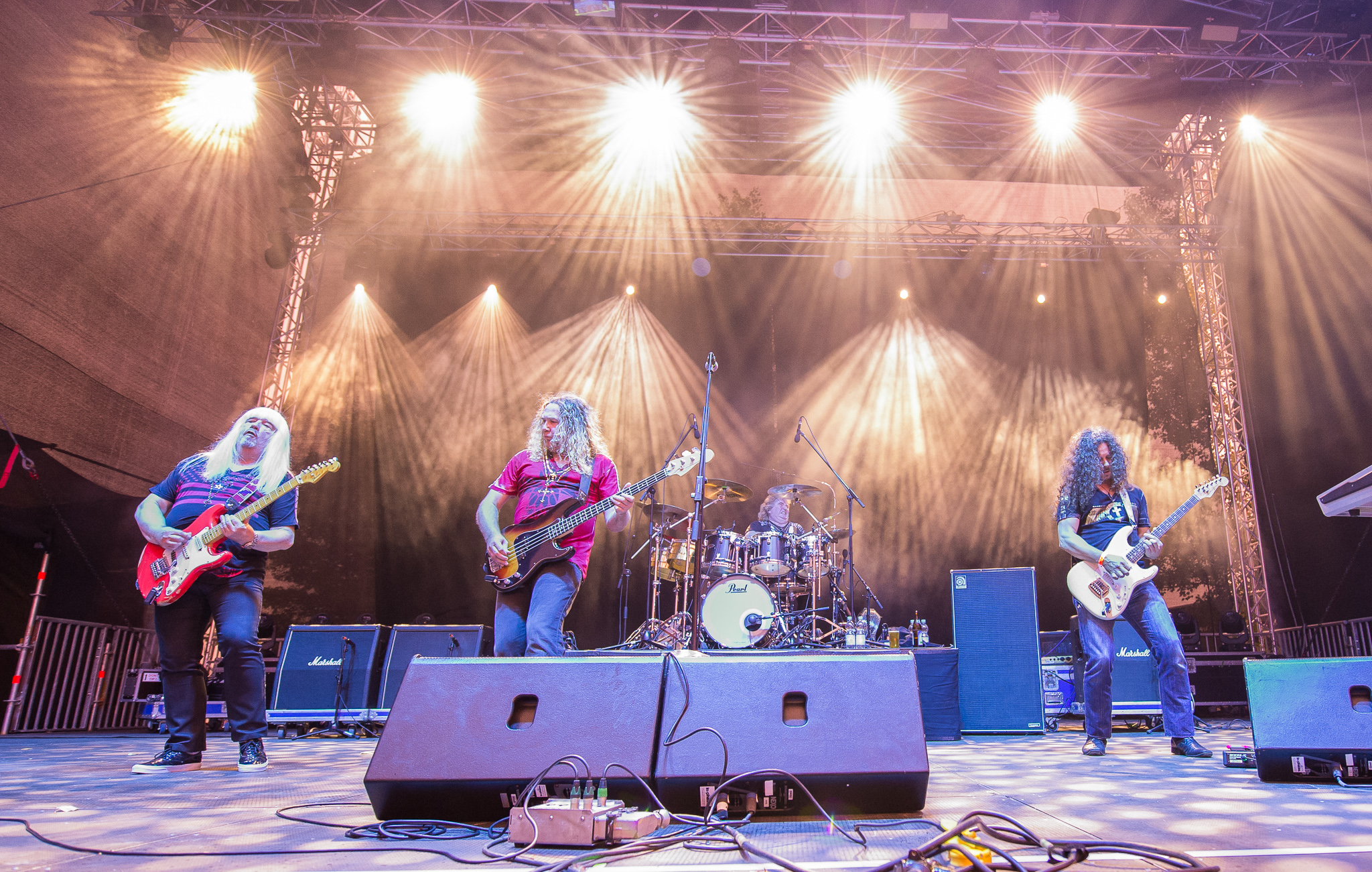 Andy Scott,Bruce Bisland,Concertbüro Franken,Festival,Konzert,Lieder am See,Livekonzert,Livemusik,Musik,Peter Lincoln,The Sweet,Tony O'Hora